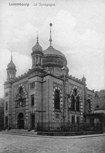 Synagogue Luxembourg 1894, destroyed by the Nazi-occupant in 1943.